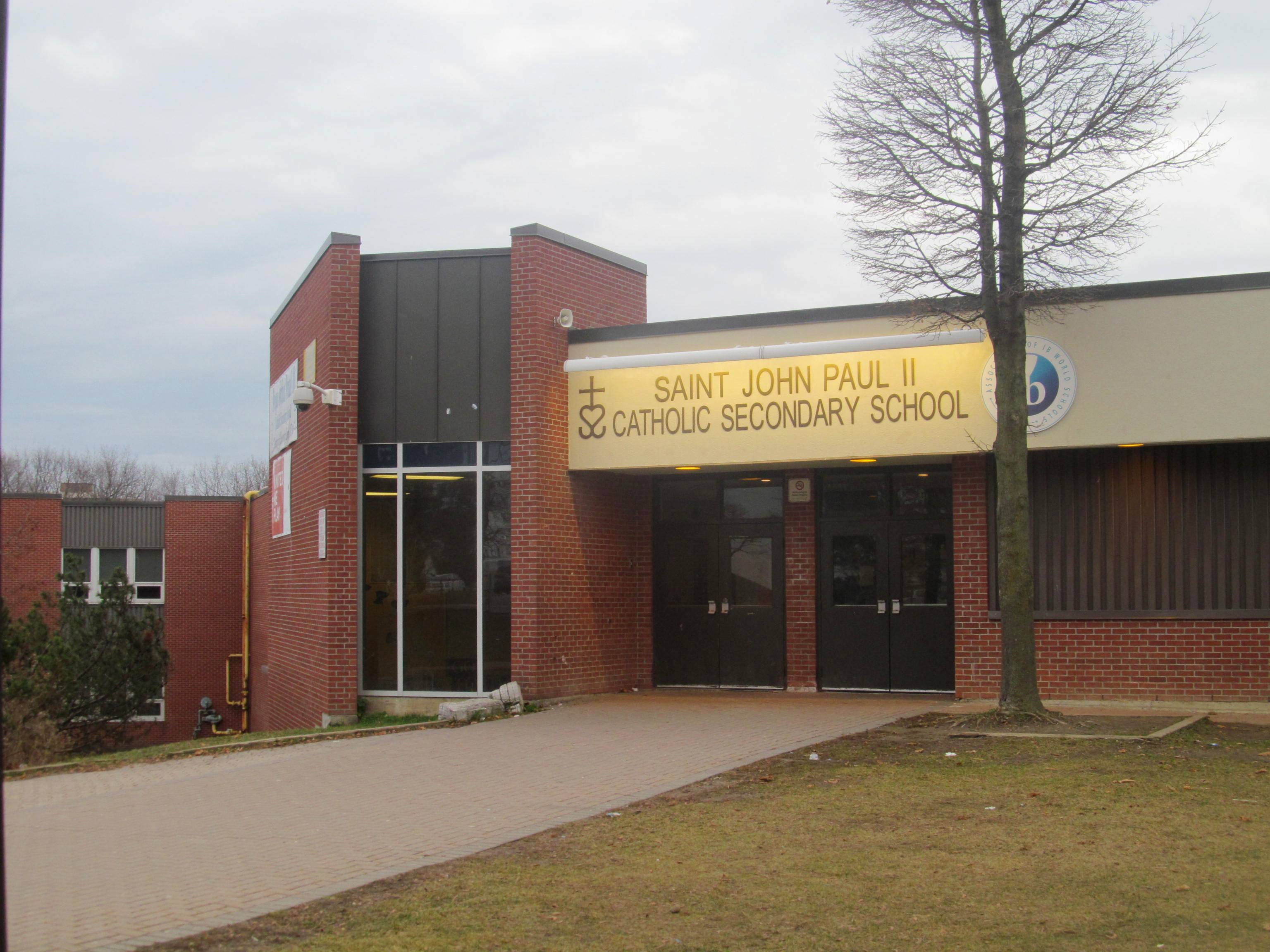 St. John Paul II Catholic Secondary School in December 2015.